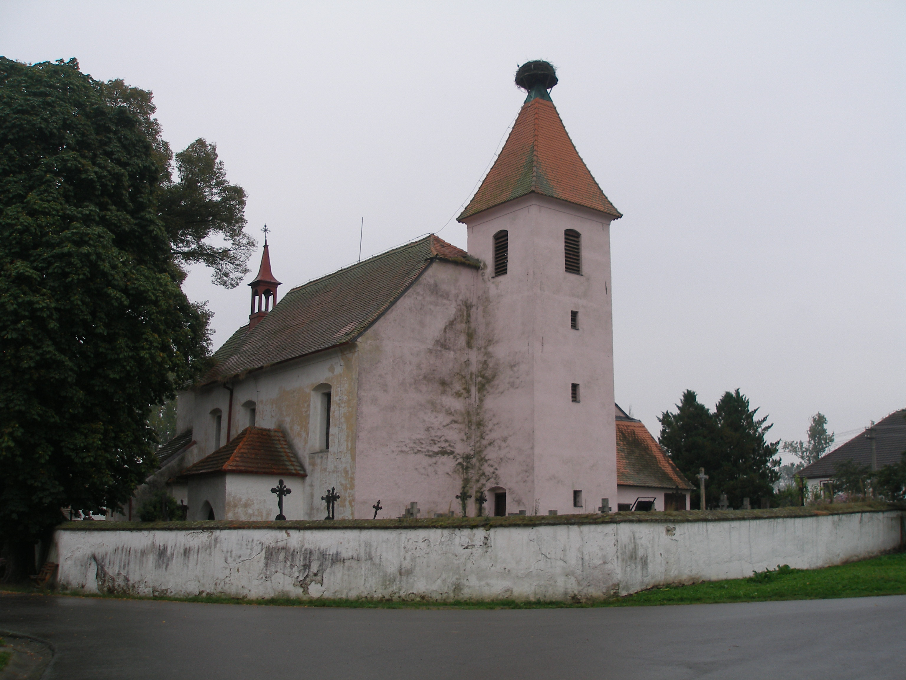 Strýčice - the St. Peter an Paul church